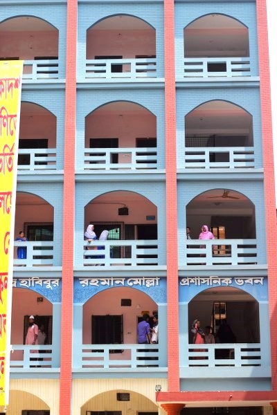 A.k. school, main campus